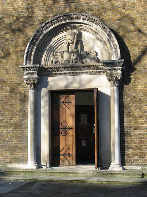 St Anselm, Kennington Cross, London SE11 - Doorway, by Alfred Gerrard